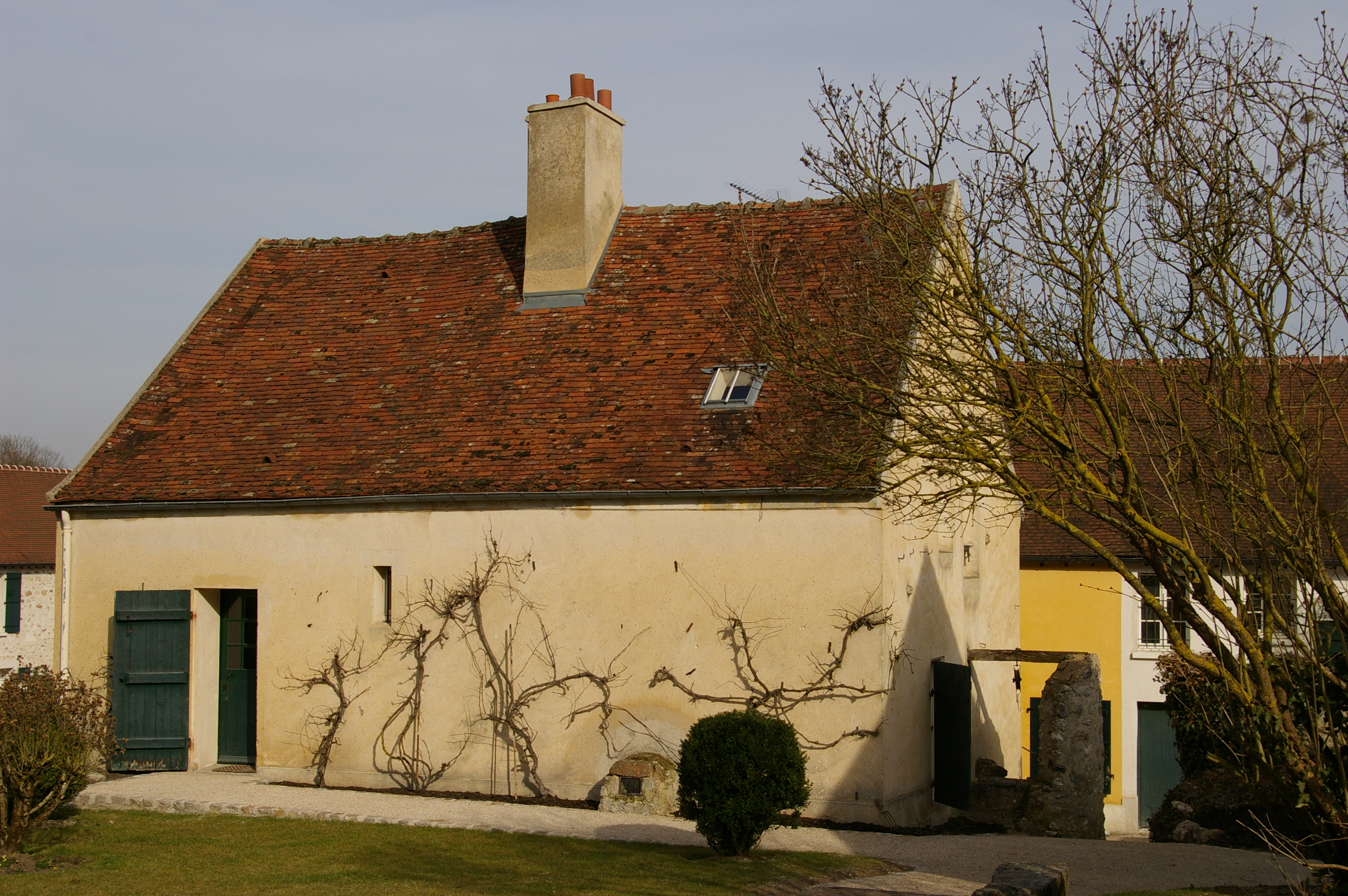 House of Louis BRAILLE